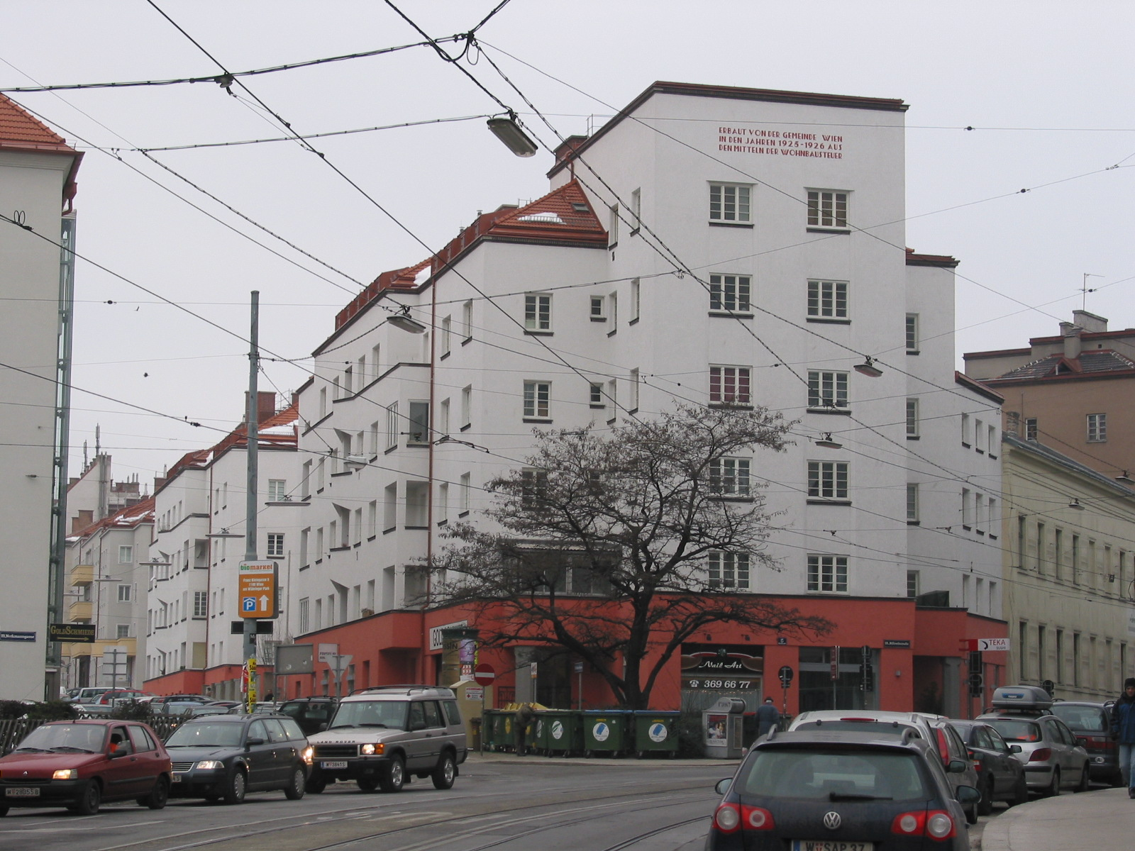 Pestalozzihof by E. Briggs, Vienna XIX, 2006-01-14 selfmade photo